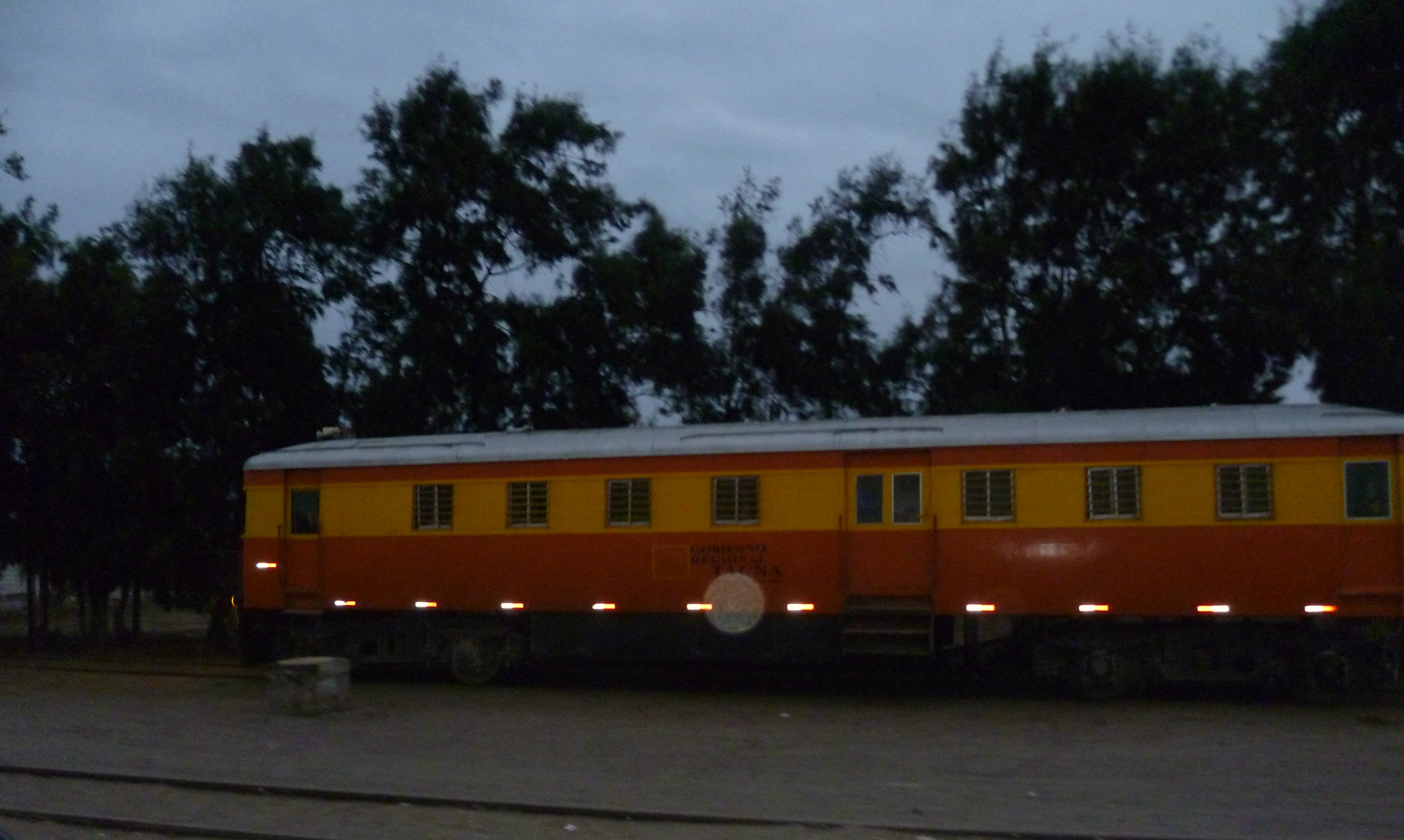 Tren Tacna-Arica